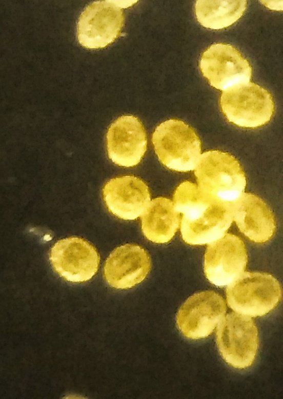 Pollens of Peltophorum pterocarpum